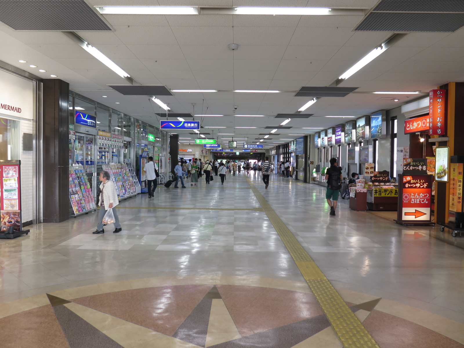 Kurashiki Station Access